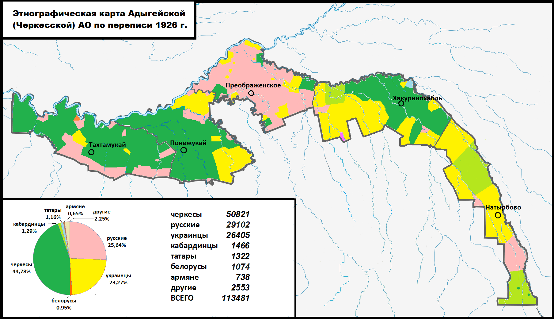 Ethnographic map of the Adygea (Circassian) autonomous area on 1926